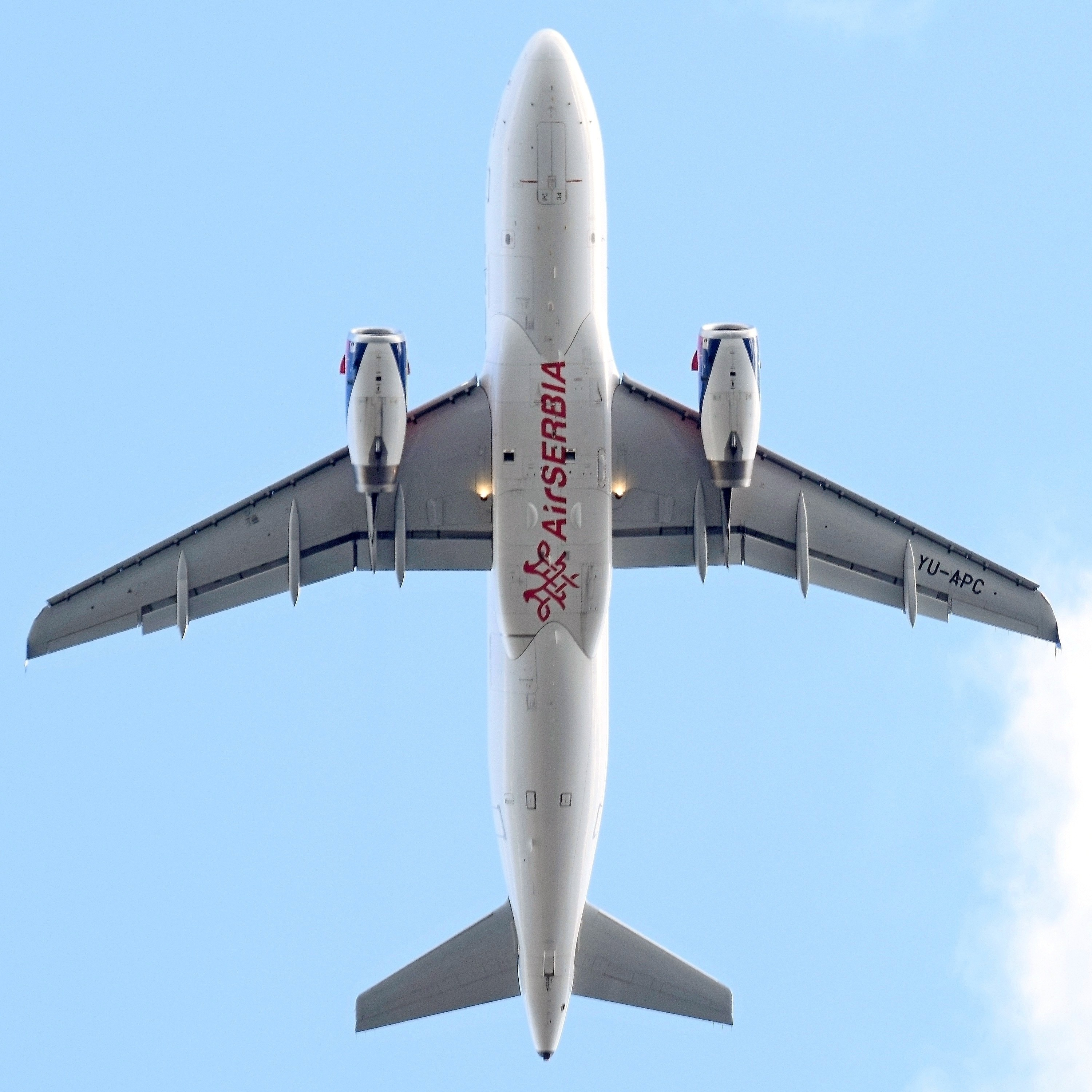 Planform view of an Air Serbia Airbus A319-100 (YU-APC) departing London Heathrow Airport. This aircraft was built in 2005.